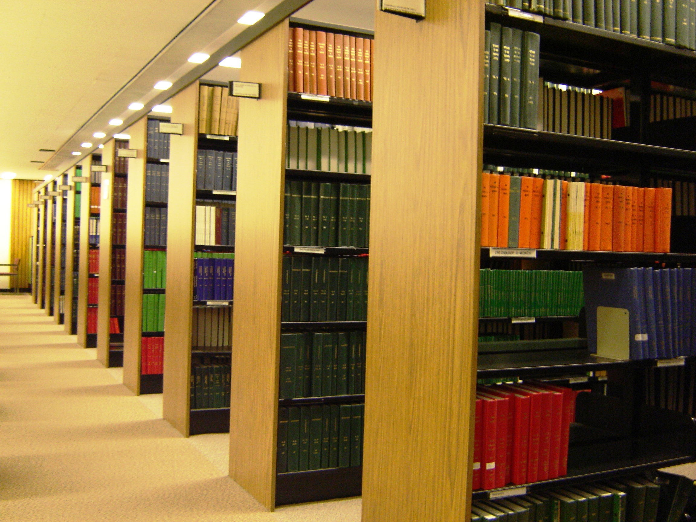 A stack of bookshelves at the Health Sciences Library, University of Saskatchewan (Saskatoon, Saskatchewan, Canada). This picture was taken by parihav (c) 2005